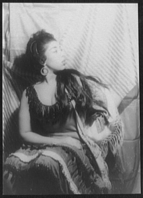 Title: Portrait of Debria Brown, as Carmen, Act I Abstract: 1 photographic print : gelatin silver.